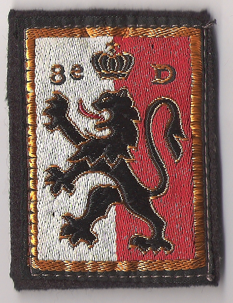 cloth badge of the 8th Infantry Division